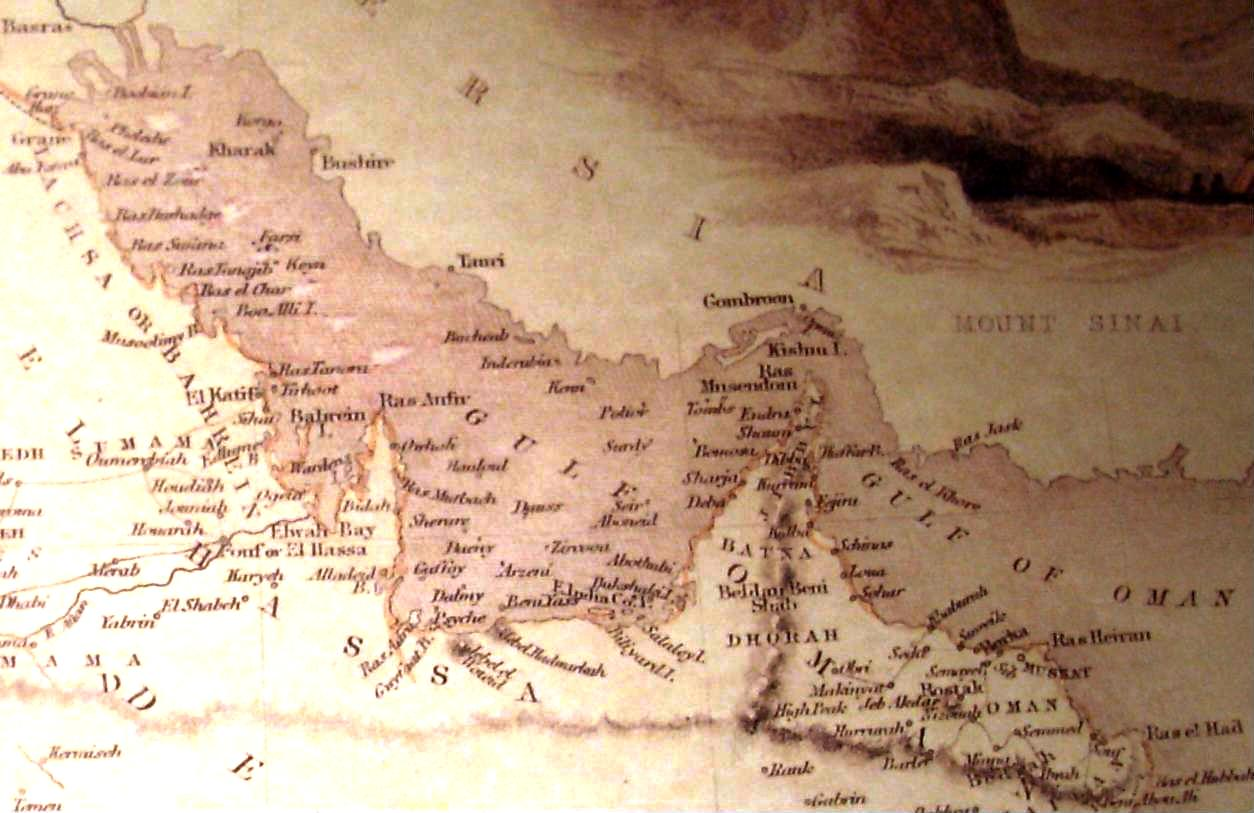 A historical map of the Persian Gulf in a Dubai museum, United Arab Emirates. The word "Persian" is erased from the "Persian Gulf" phrase on the map.